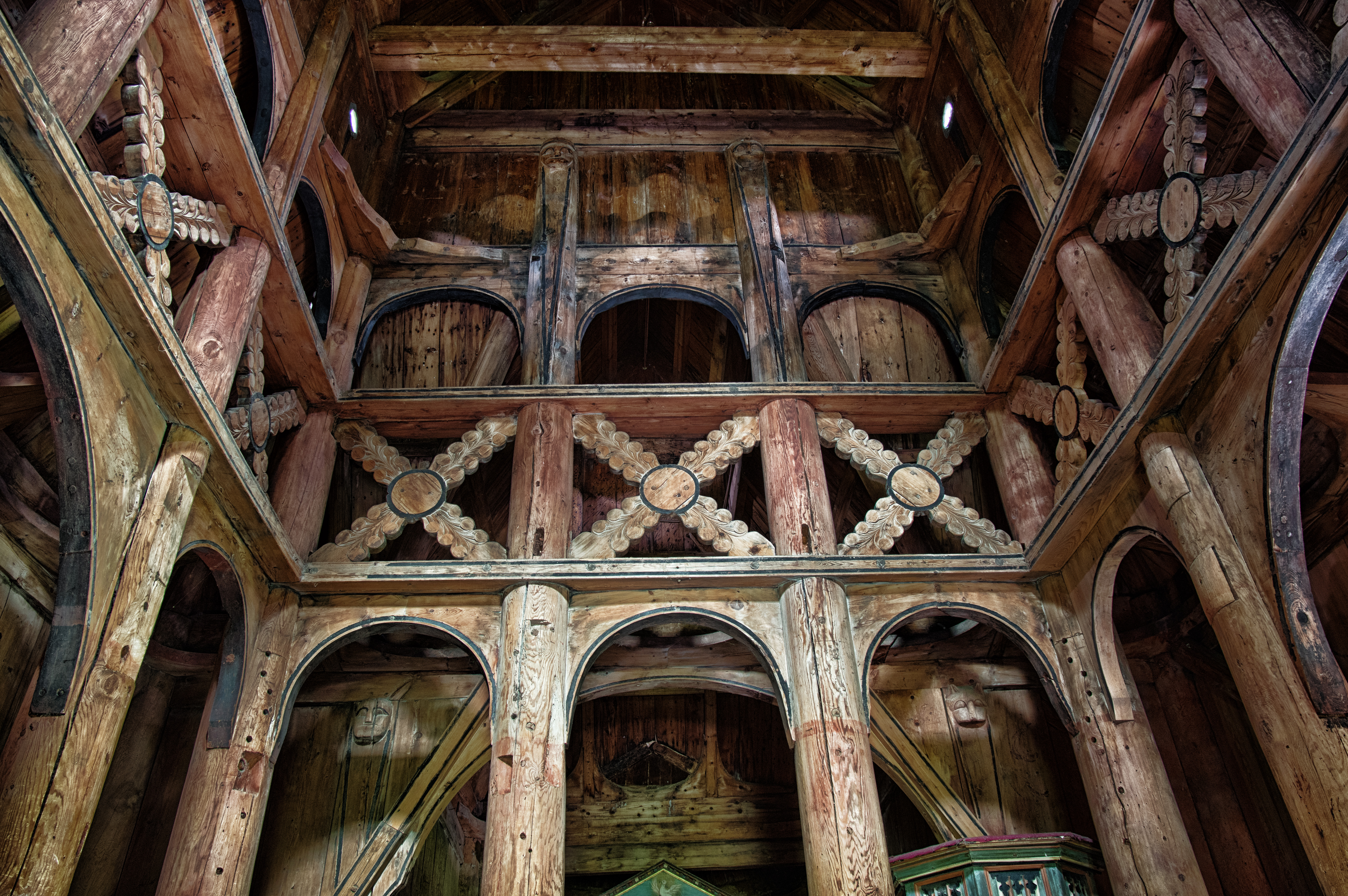 Borgund Stave Church (Norwegian: Borgund stavkyrkje) is a stave church built sometime between 1180 and 1250 AD, located in the village of Borgund in the municipality of Lærdal in Sogn og Fjordane county, Norway.